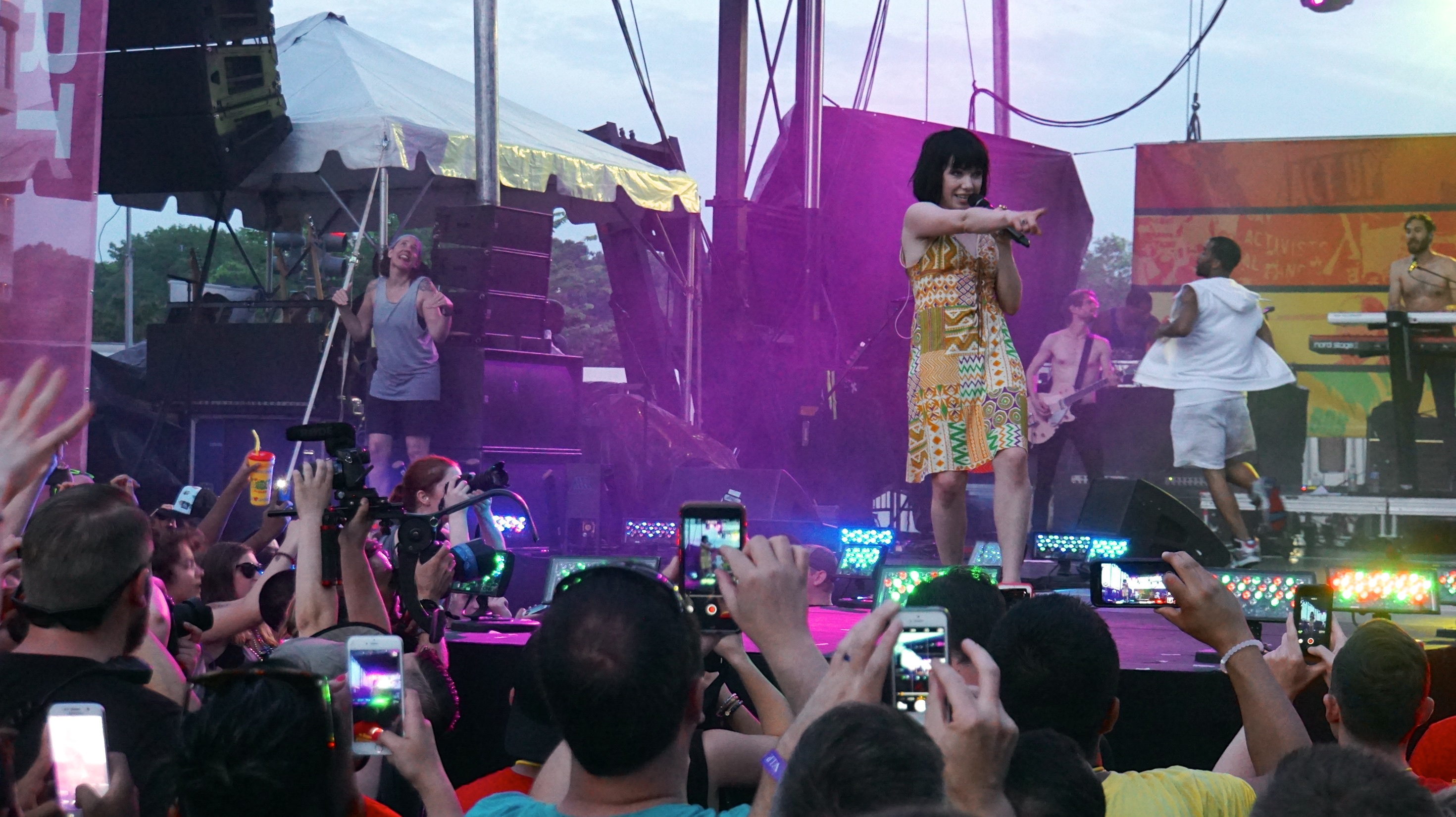 Featuring Carly Rae Jepsen and Wilson Phillips Kaiser Permanente is a Gold Sponsor of Capital Pride and a Platinum Sponsor of Capital TransPride in our nation's capital